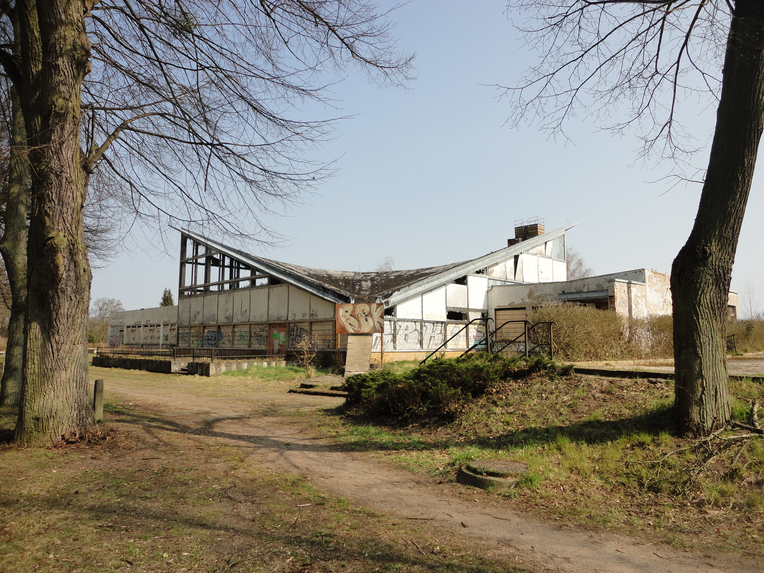 Southwestern view of former Kulturzentrum Bürgergarten in Templin, Brandenburg state, Germany. Architect: Ulrich Müther